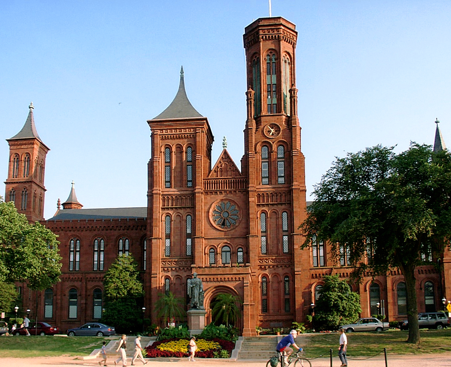 Smithsonian Institution Building or The Castle, built in 1855, in Washington D.C.